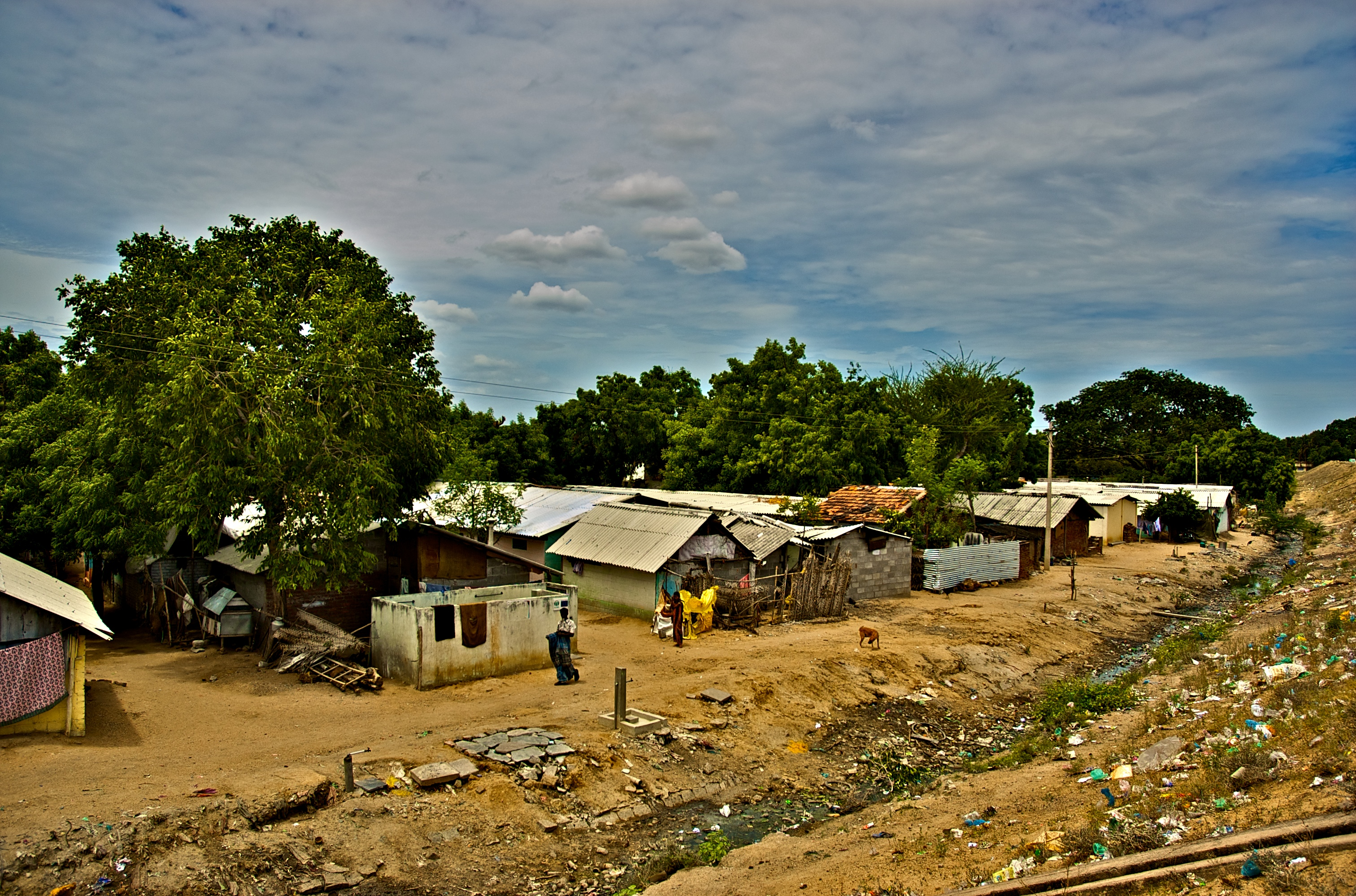 Vembakkottai camp in Virudhunagar district, Tamil Nadu was set up in 1990 to accommodate Sri Lankan refugees. The camp is situated close to a dam which fills up every rainy season. Excess water often seeps into the mostly one-room houses of the camps causing great distress. © EU 2012 - photo credits: EC/ECHO Arjun Claire